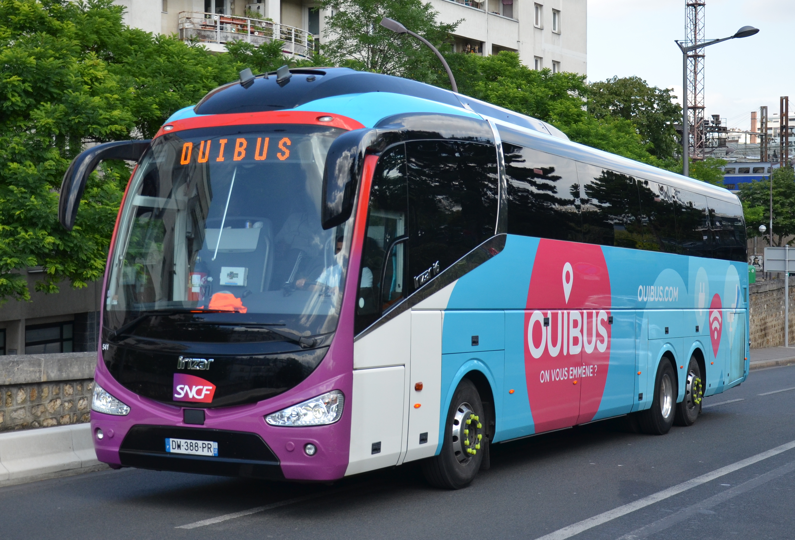 Ouibus coach at Paris-Bercy terminal.